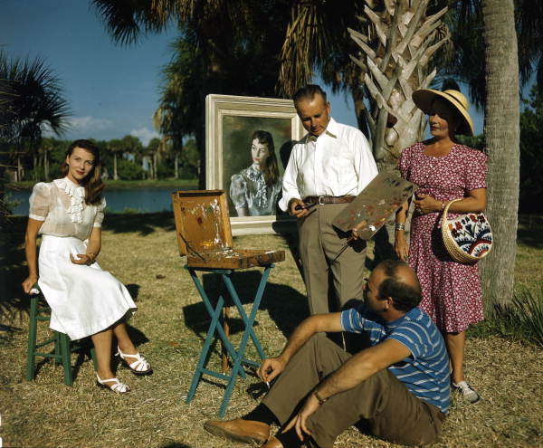 Local call number: JJS0403 Title: Jerry Farnsworth painting a portrait of Mrs. Ben Stahl: Sarasota, Florida Date: 1947 Physical descrip: 1 transparency - col. - 4 x 5 in. Series Title: Repository: 500 S. Bronough St., Tallahassee, FL 32399-0250 USA. Contact: 850.245.6700. Persistent URL